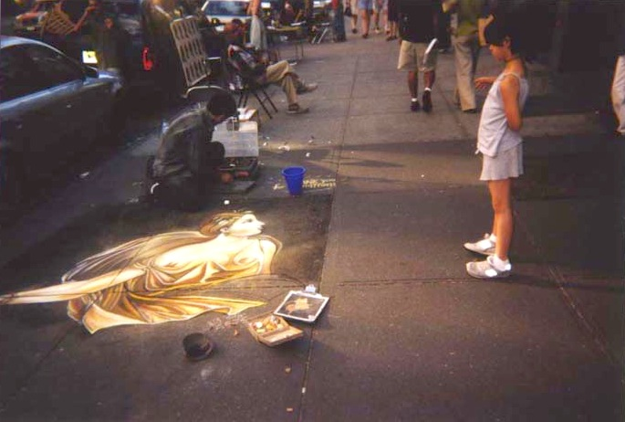 Picture of a Street Artist in New York City